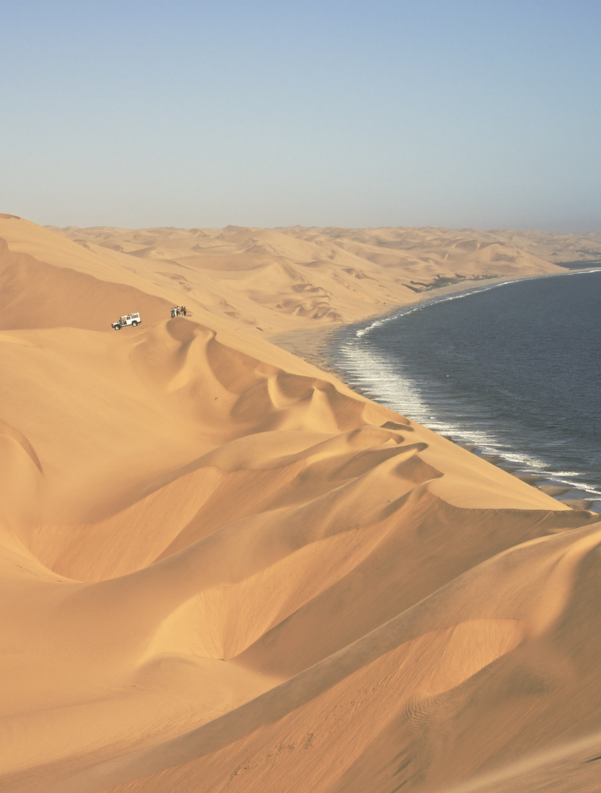 This is an image with the theme "Africa on the Move or Transport" from: Namibia